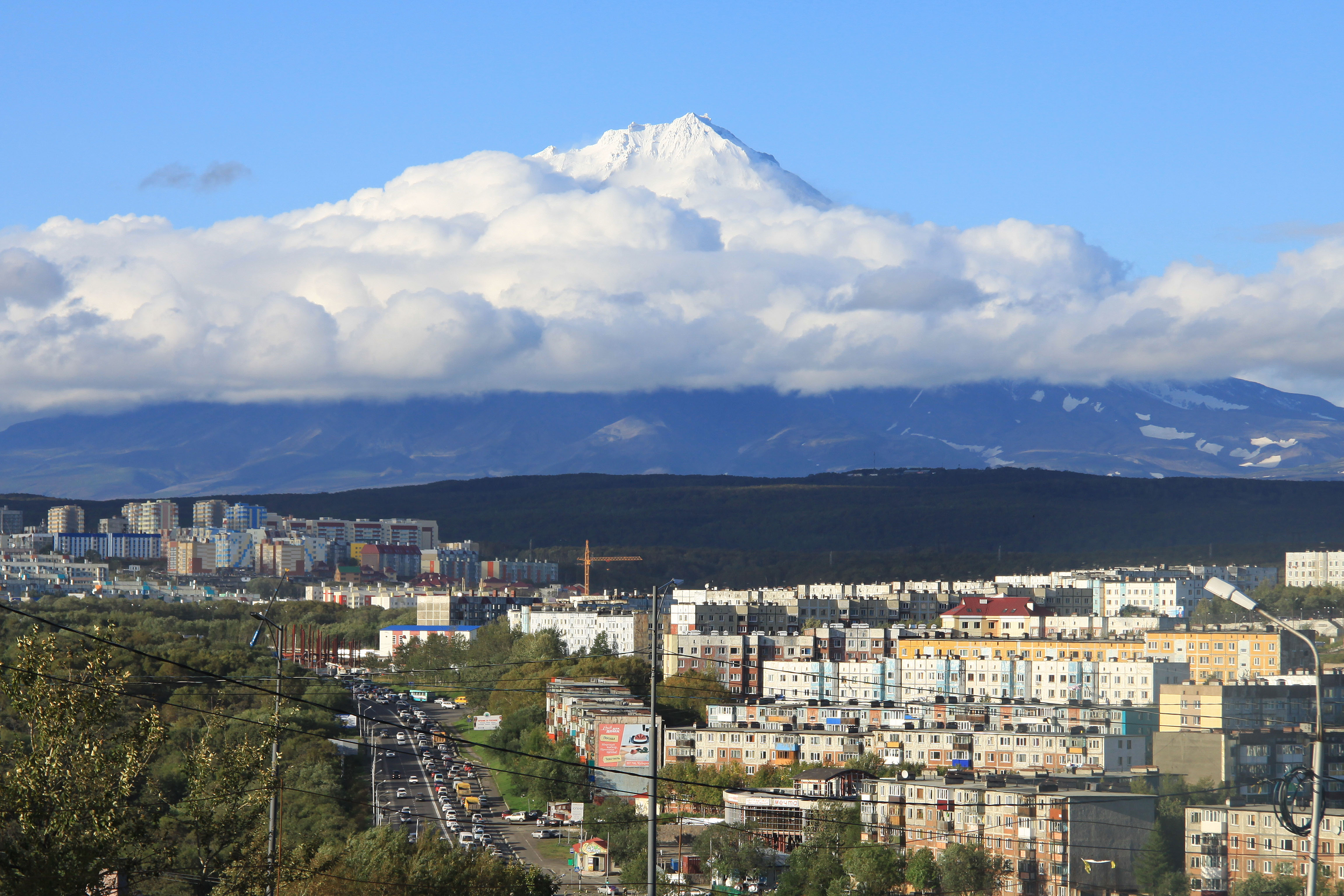 Petropavlovsk-Kamchatsky with Koryaksky volcano